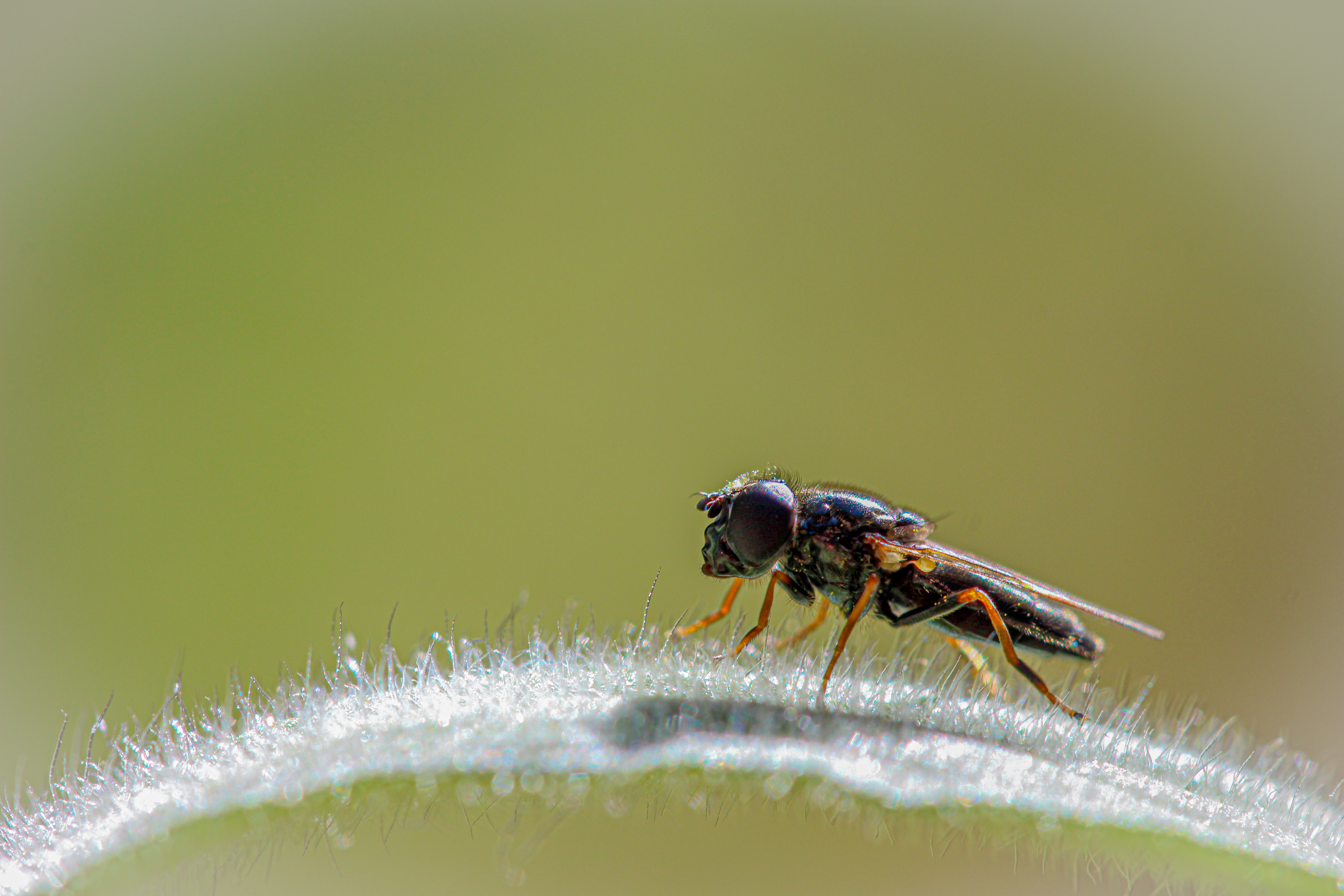 Macrophotographie d'une espèce du genre Cheilosia, de sexe femelle, prise à Rognes par Simon Thevenin le 14/03/2020